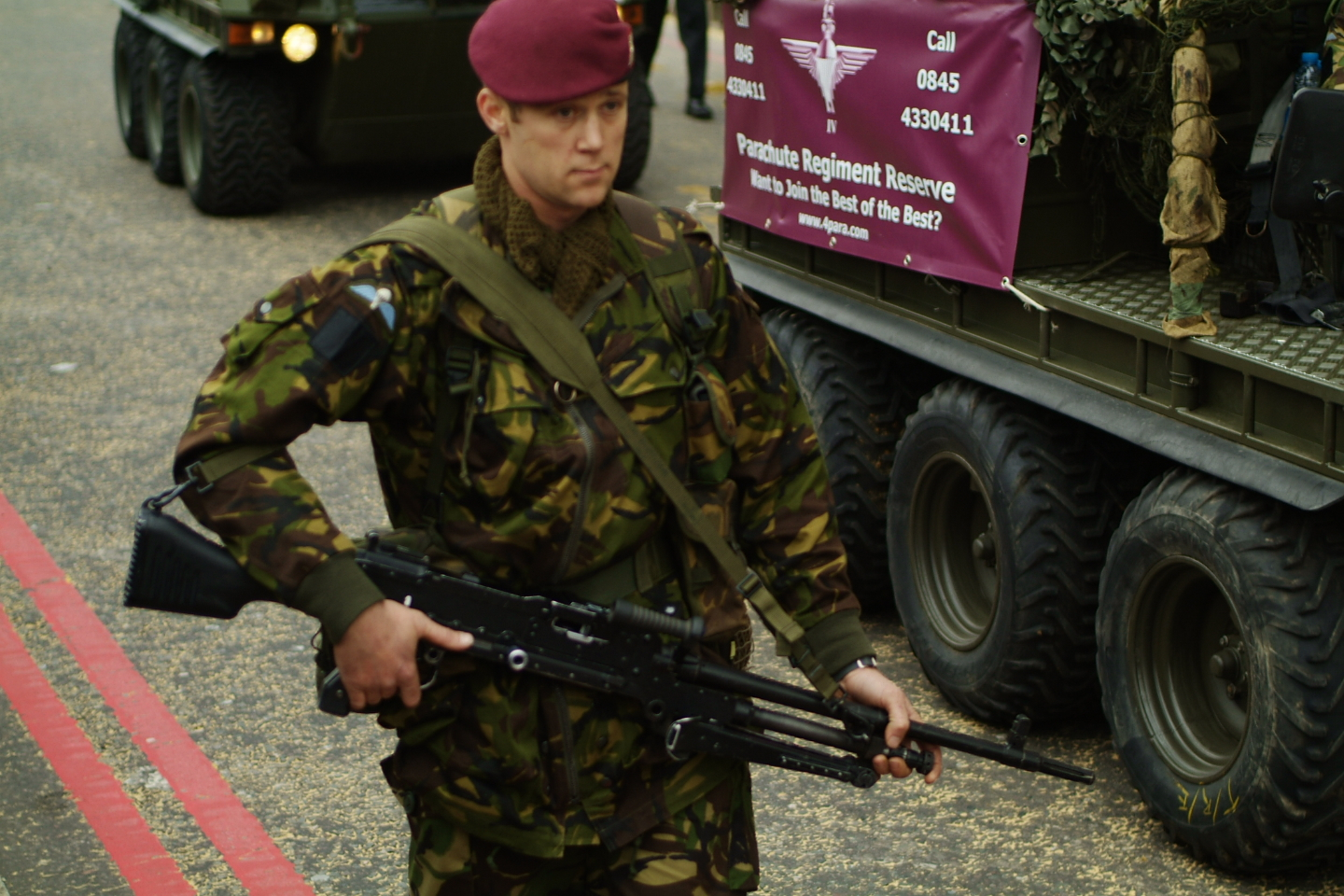 Lord Mayor's Show, London 2006